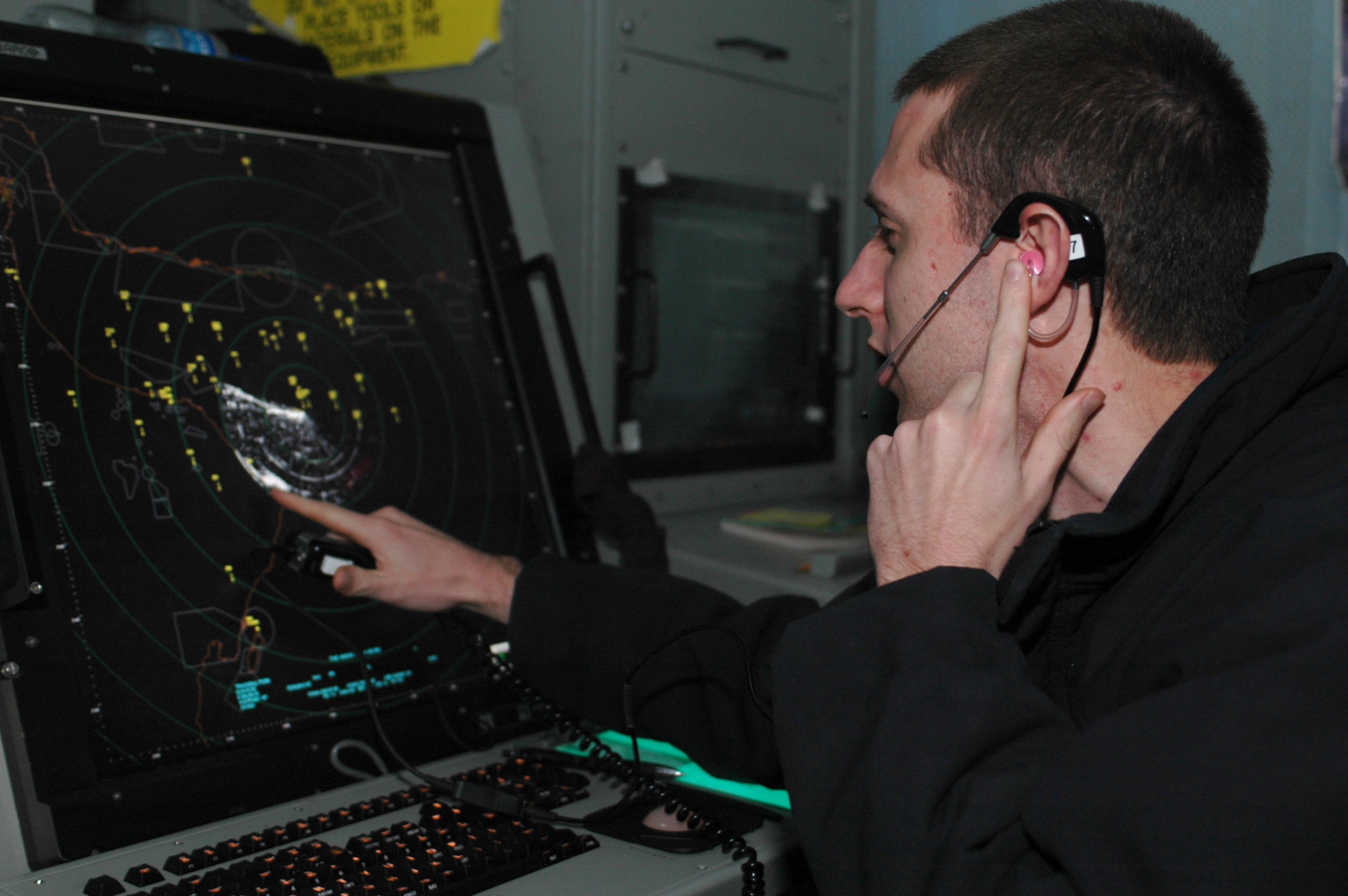 GULF OF OMAN (Nov. 1, 2009) Air Traffic Controller 3rd Class Elliott Young, assigned to the aircraft carrier USS Nimitz (CVN 68), performs a traffic call to departing aircraft. The Nimitz Carrier Strike Group is on a routine deployment to the region. (U.S. Navy photo by Mass Communication Specialist Seaman Apprentice Robert Winn/ Released)